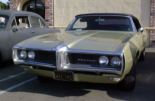 1968 Pontiac Tempest at the weekly Garden Grove, California car show Photo credit: User:Morven Capture date: May 21, 2004 Location: Garden Grove, California